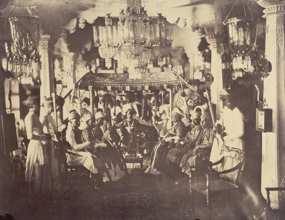 Photograph of the H.E. Tondaiman Rajah and his ministers, part of the 'Photographic Views of Poodoocottah' (Madras, 1858) collection, taken by Linnaeus Tripe in 1858. In 1855, Tripe was commissioned to take photographs for the British East India Company and the Madras Presidency which resulted in six albums, one of which concentrated on Pudukottai and is seen here. Now in the modern state of Tamil Nadu, Pudukottai was once a princely state under the Tondaiman Rajas. This view shows a portrait group in the durbar hall of the palace, with Ramchandra Tondiman-the Raja of Pudukkottai-seated in the middle, flanked by two rows of seated ministers.